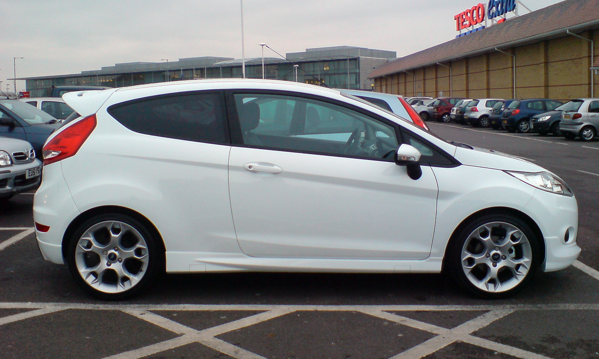 Ford Fiesta Zetec S (Sport) in white color.